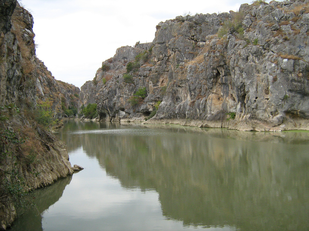 Canyon of White drin river in the road betwen Gjakova and Prizren